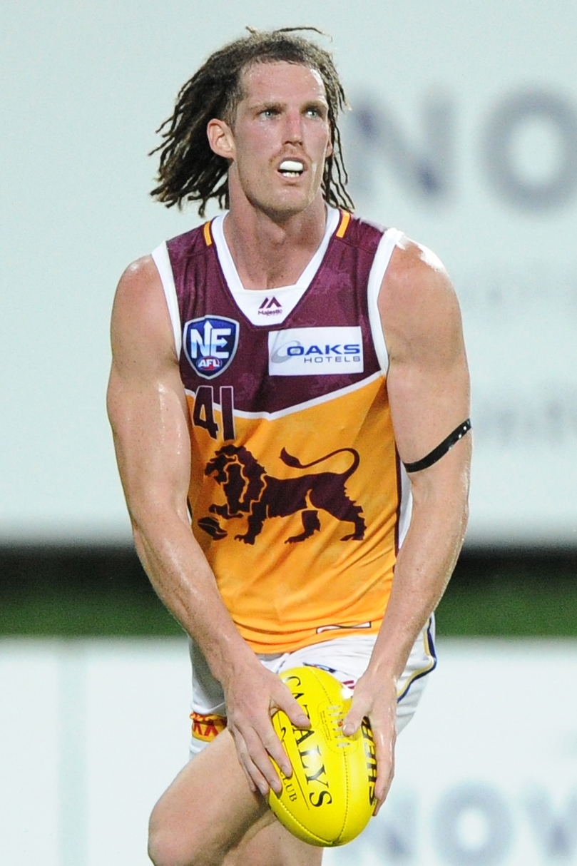 Matt Eagles of the Brisbane Lions during the NEAFL round one match between NT Thunder and Brisbane Lions at TIO Stadium on 7 April 2018 in Darwin, Australia.